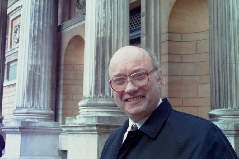 Professor Nigel F. Palmer in front of the Ashmolean Museum, photographed on the occasion of his election as Fellow of the British Academy